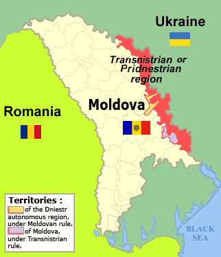 Map of the Transnistrian Region